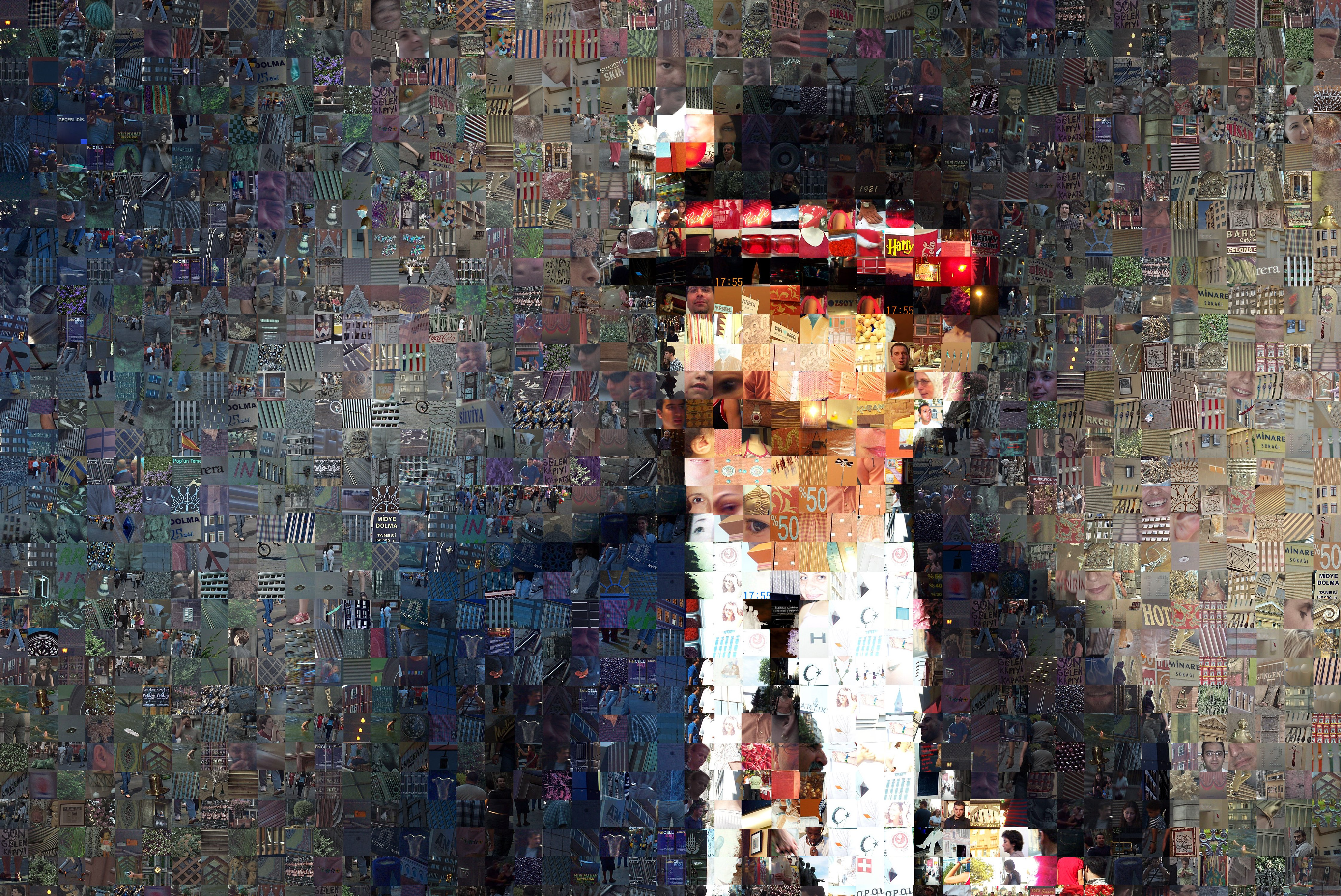 Imagemosaics from Beyoglu / Istanbul